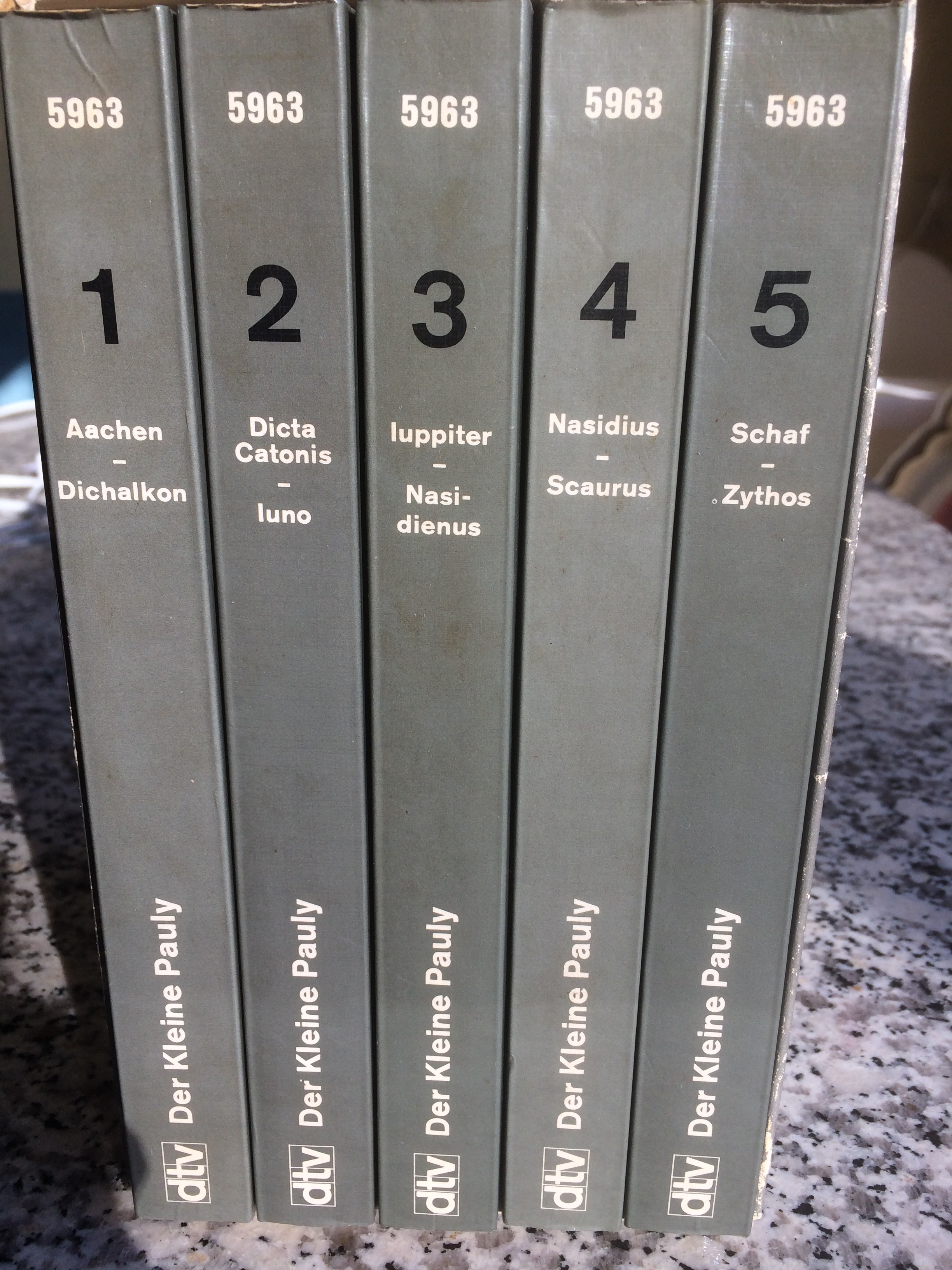 The 5 volumes comprehensive encyclopaedia in German for those, interested in classical studies (i.e. ancient history, archaeology and classical languages